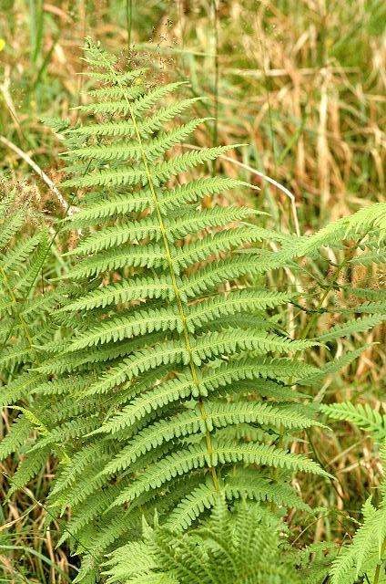 Picture taken in Commanster, Belgian High Ardennes . Species: Oreopteris limbosperma